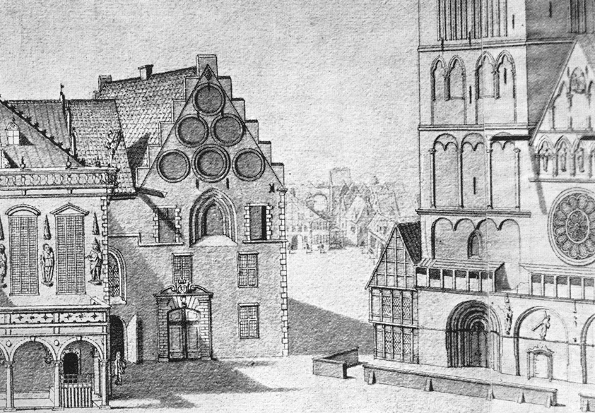 South gable of the former Palatium in Bremen, Germany, built in the 13th century an dismanteled in 1816. Clipping from a drawing made 1695 on behalf of Erik Dalbergh, swedish govenor of the duchy of Bremen and the principality of Verden.